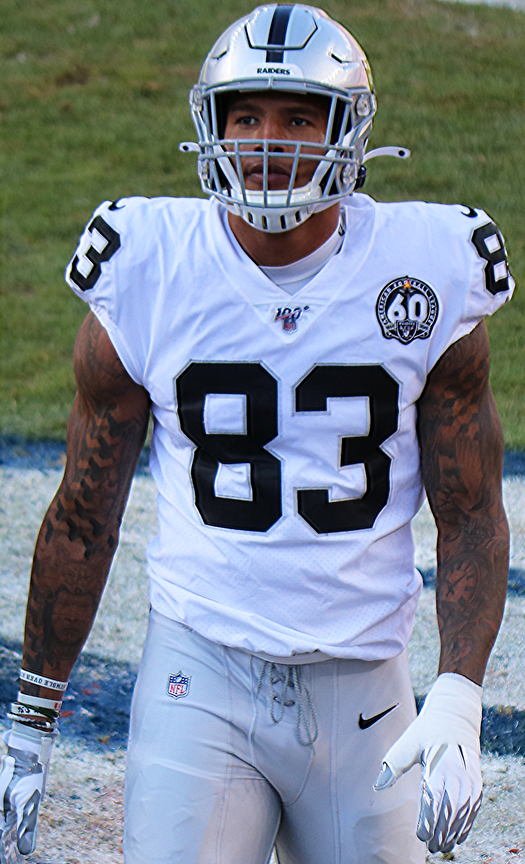 Darren Waller, a National Football League player.